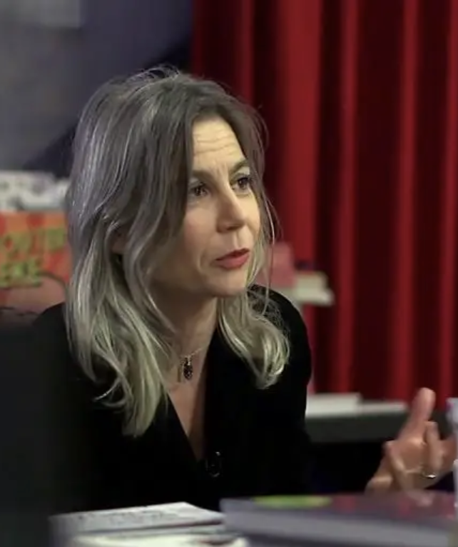 Image of Sara Mannheimer giving an interview after winning the 2012 European Union Prize for Literature